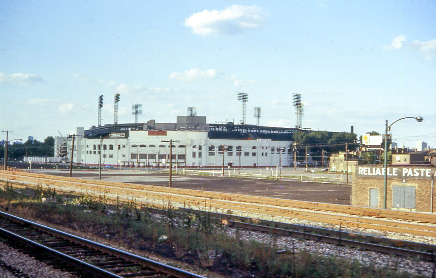 Comiskey Park in 1968.